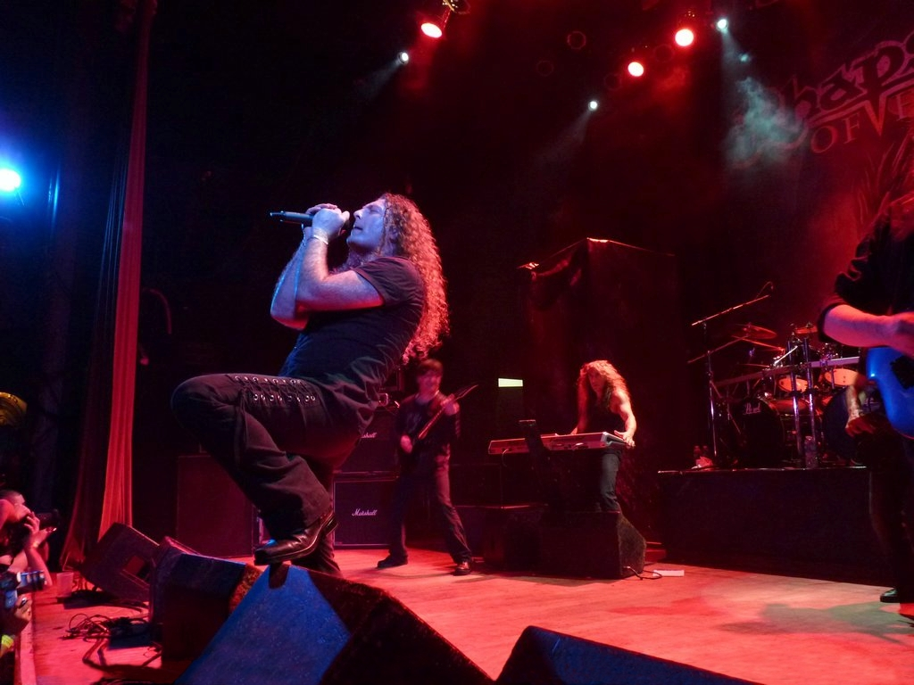 Rhapsody of Fire performing at Teatro de Flores venue, in Buenos Aires, Argentina in December 2010.